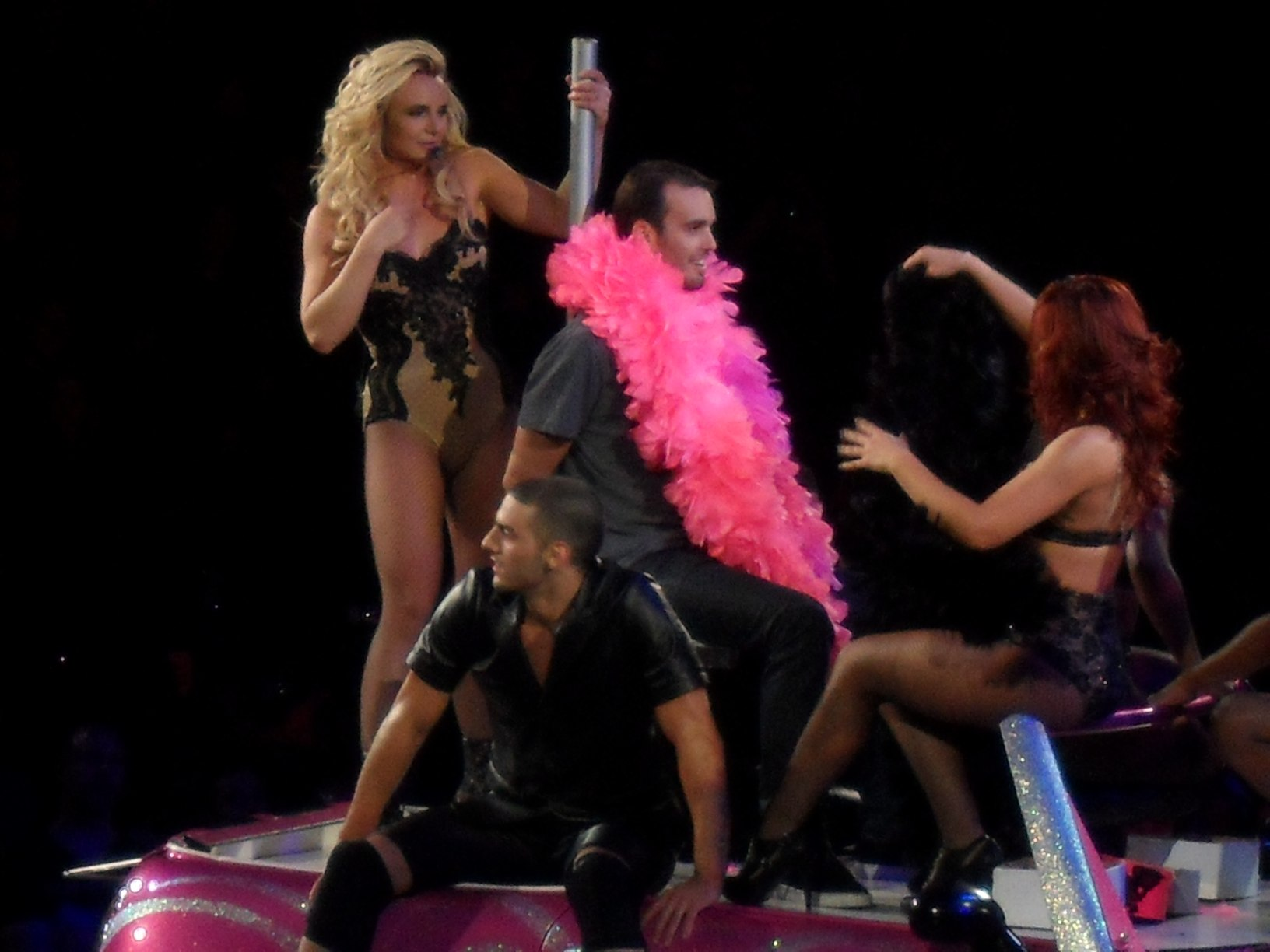 Britney Spears peforming "Lace and Leather" live at Staples Center with her 2011's Femme Fatale Tour.